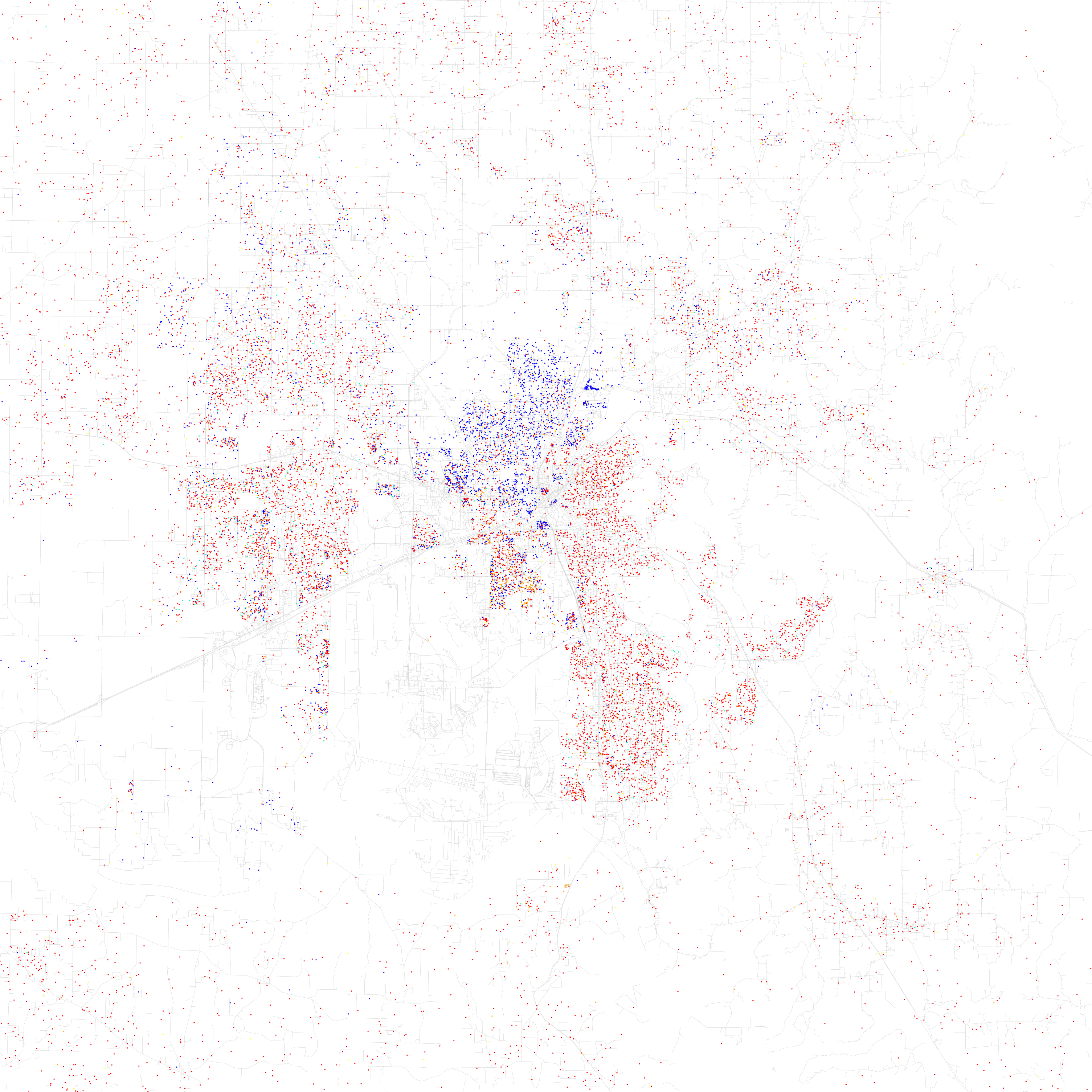 Maps of racial and ethnic divisions in US cities, inspired by Bill Rankin's map of Chicago, updated for Census 2010. Red is White, Blue is Black, Green is Asian, Orange is Hispanic, Yellow is Other, and each dot is 25 residents. Data from Census 2010. Base map © OpenStreetMap, CC-BY-SA